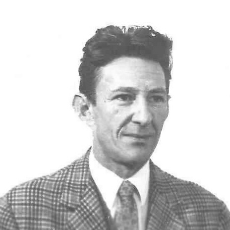 Фото-портрет из семейного альбома Розанова Б.Г.